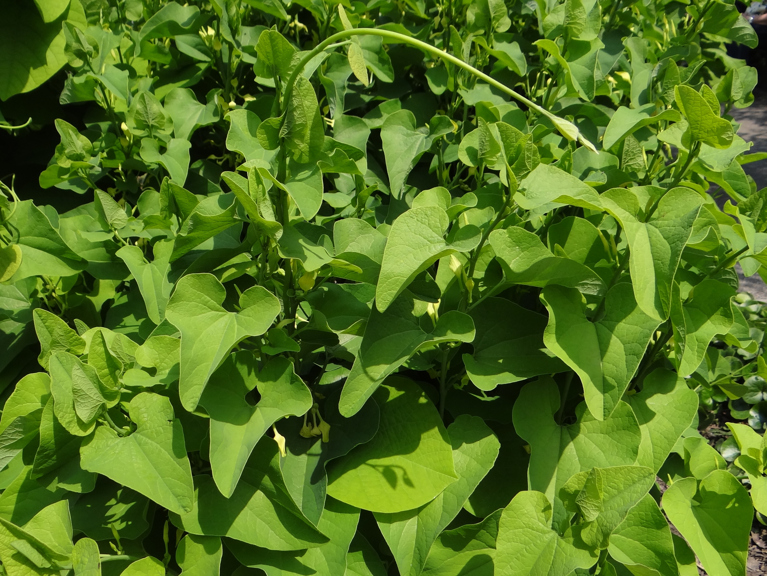 Aristolochia clematitis (location:Botanical Garden in Cracow)